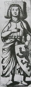 Albert I, Margrave of Meissen